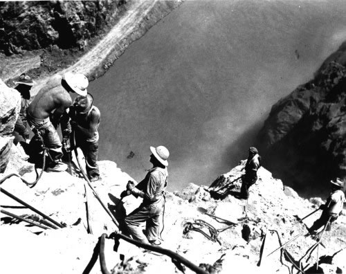 High scalers drilling into canyon wall 500 feet above the Colorado River in Black Canyon, site of Hoover Dam, 1932.